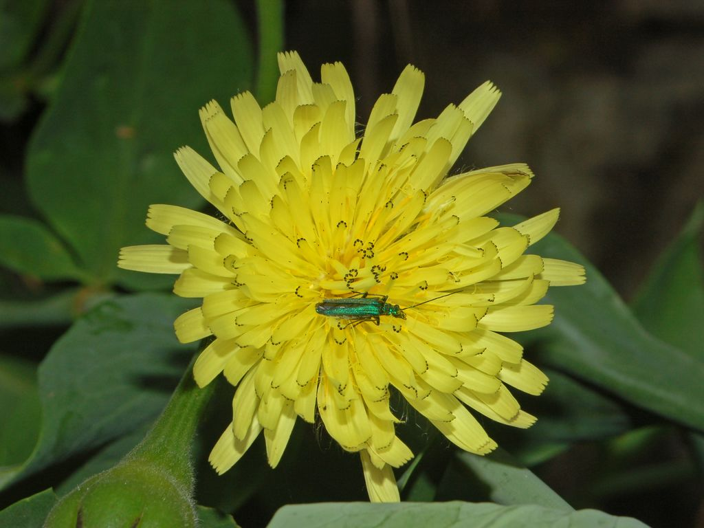 Urospermum dalechampii - Genova, Italy